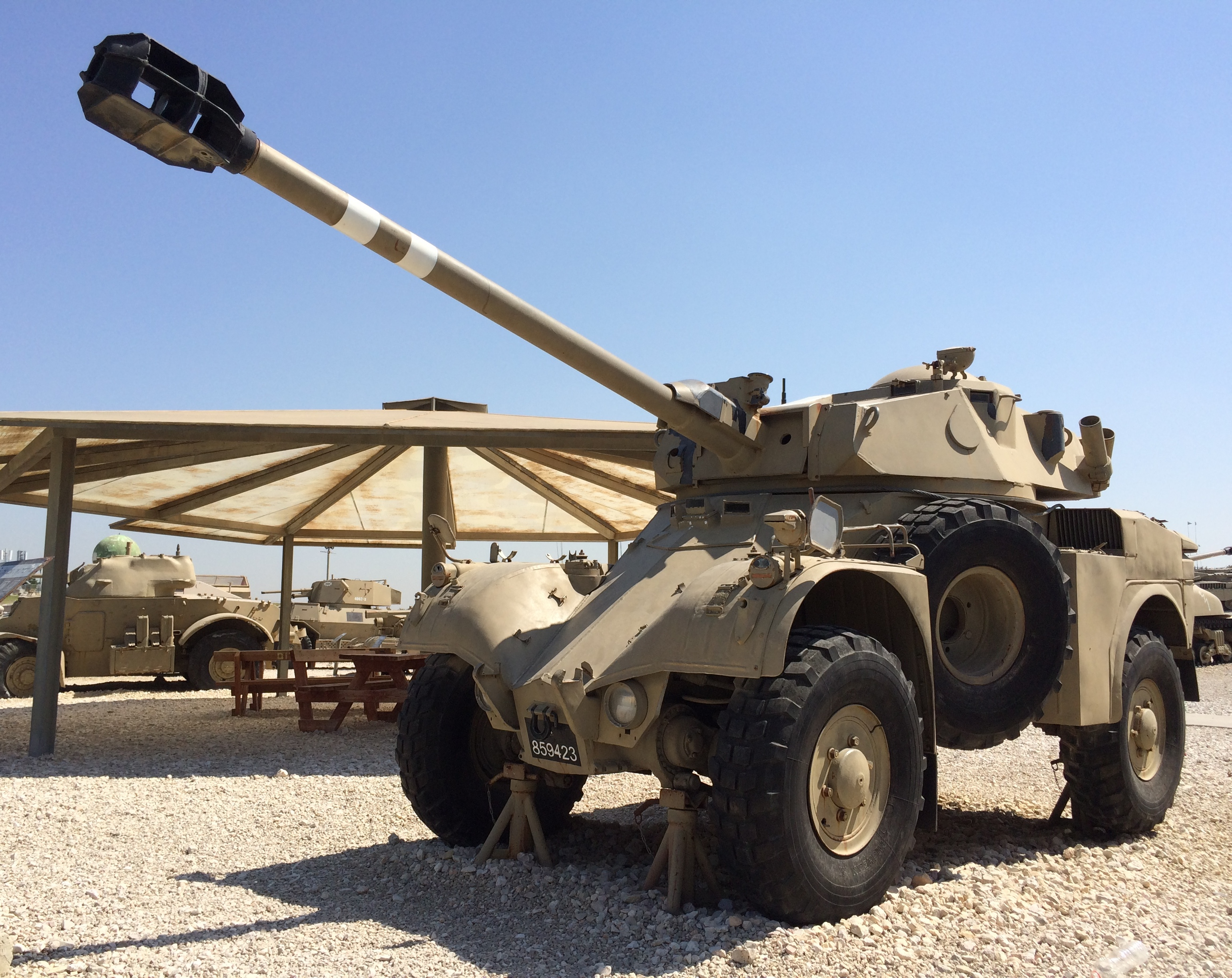 Panhard AML-90 at the Israeli Armoured Corps/Yad la-Shiryon Museum, Latrun, Israel.